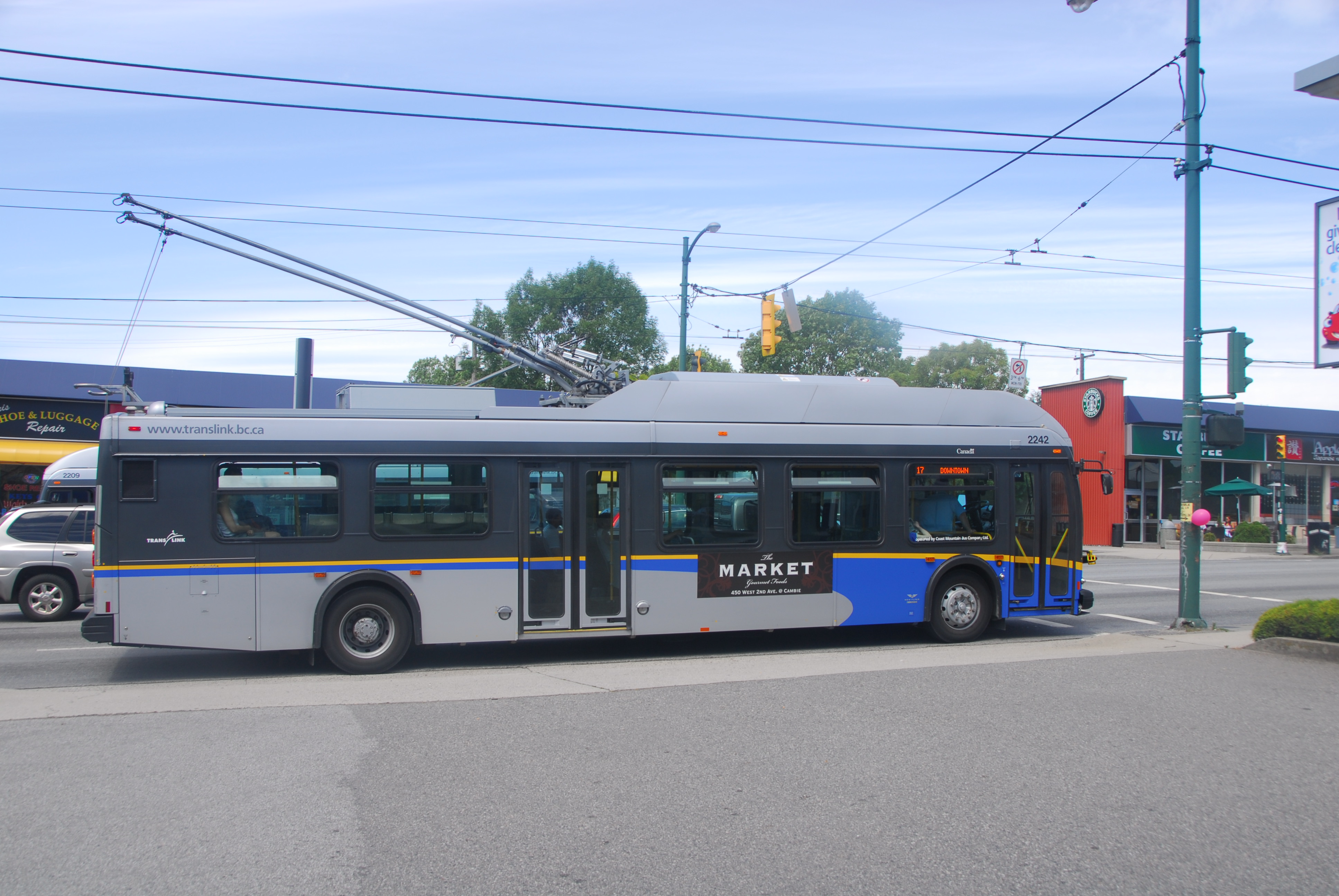 A TransLink-operated New Flyer trolleybus in Vancouver, British Columbia, Canada